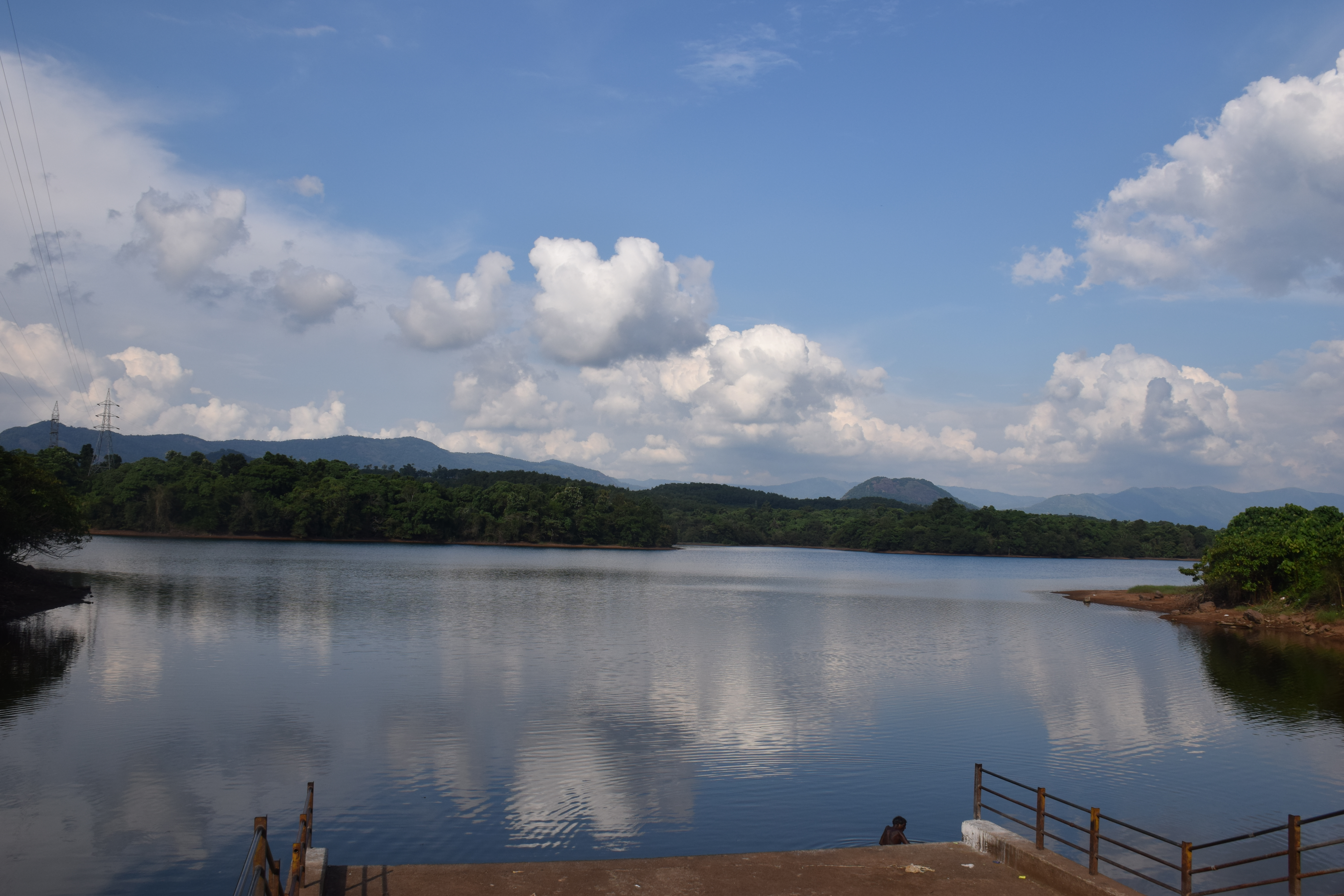 Malankara Dam from View point